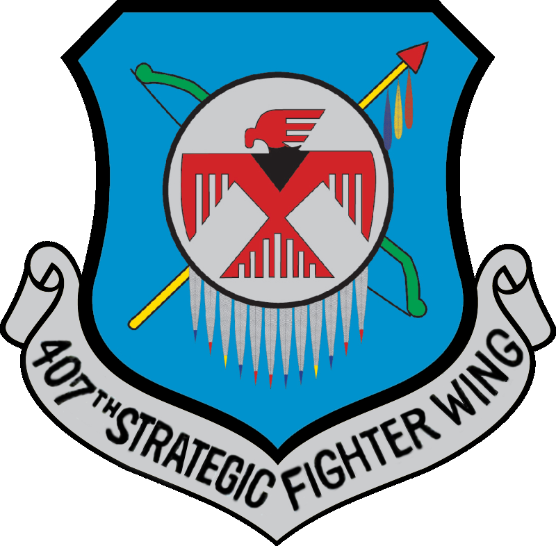 Emblem of the 407th Strategic Fighter Wing